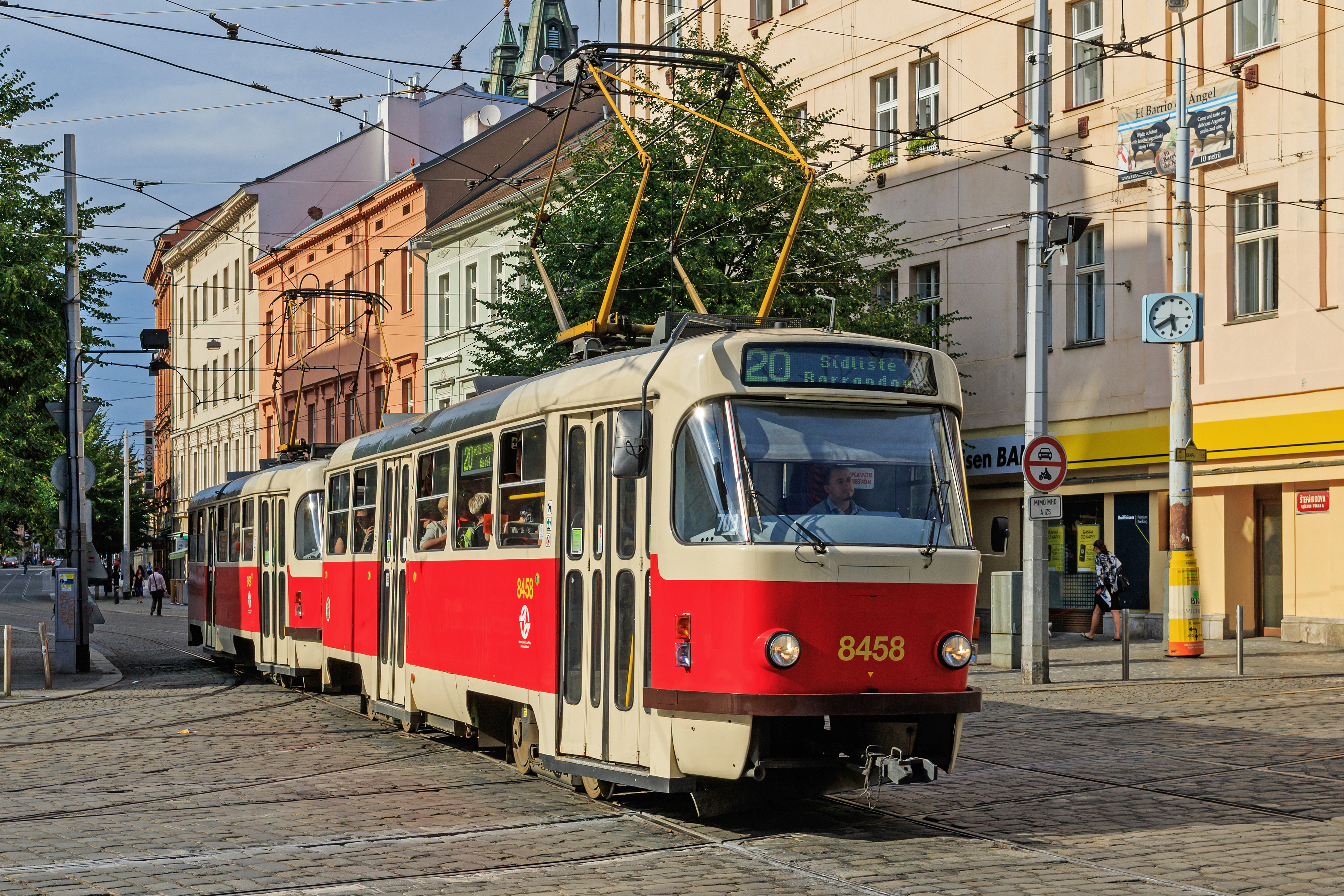 Tatra T3R.P tram near Anděl metro station in Prague (Czech Republic)